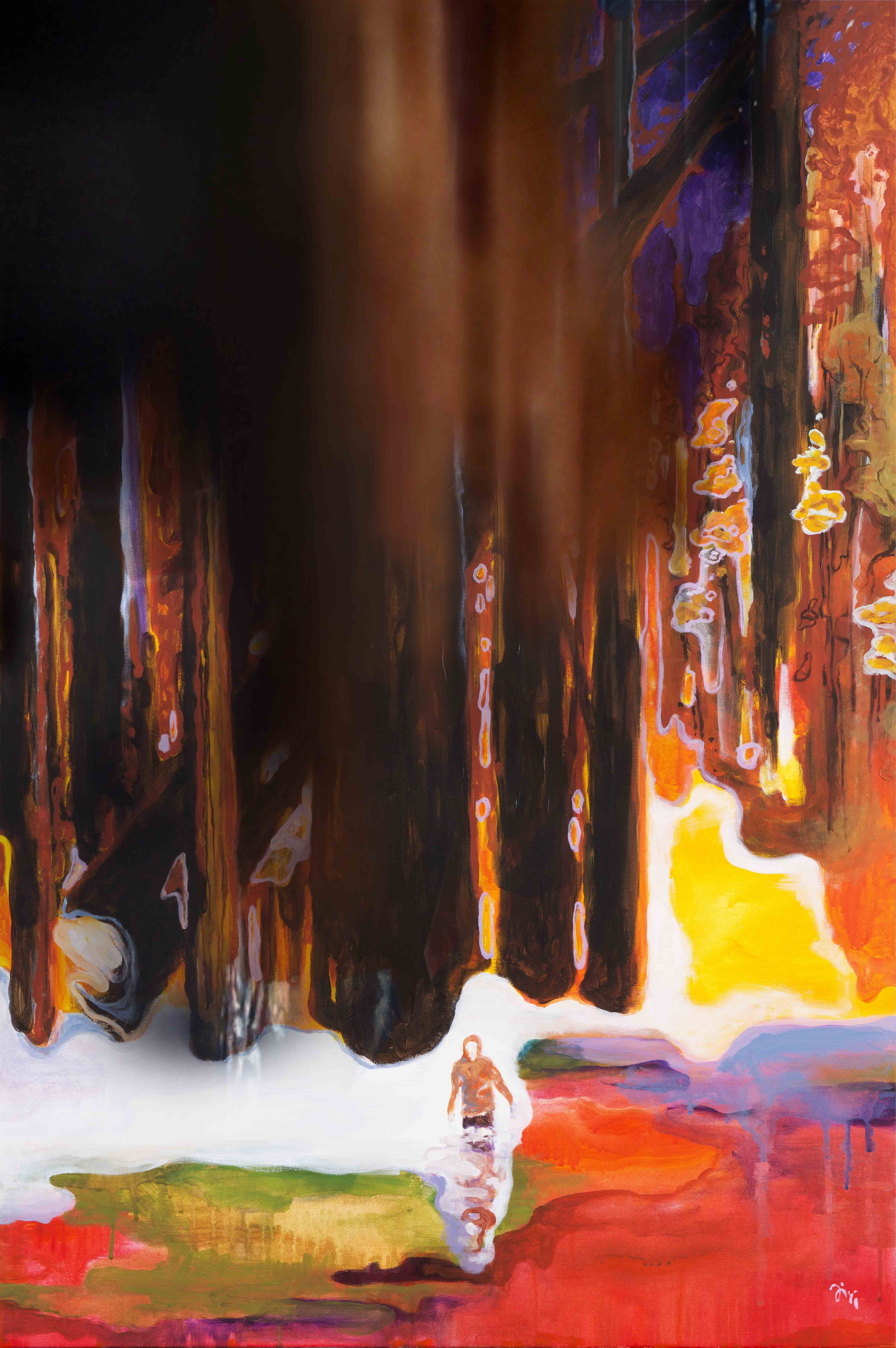 Work of Czech artist Jiří Hauschka